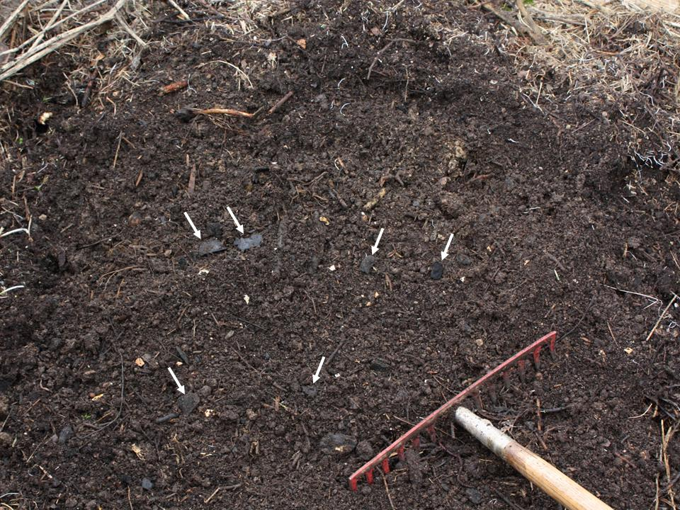 Home made terra preta: wood charcoal composted together with yard waste, kitchen slops and soil. The charcoal pieces do not decay during fermentation and can be found in the compost when it is done (white arrows).